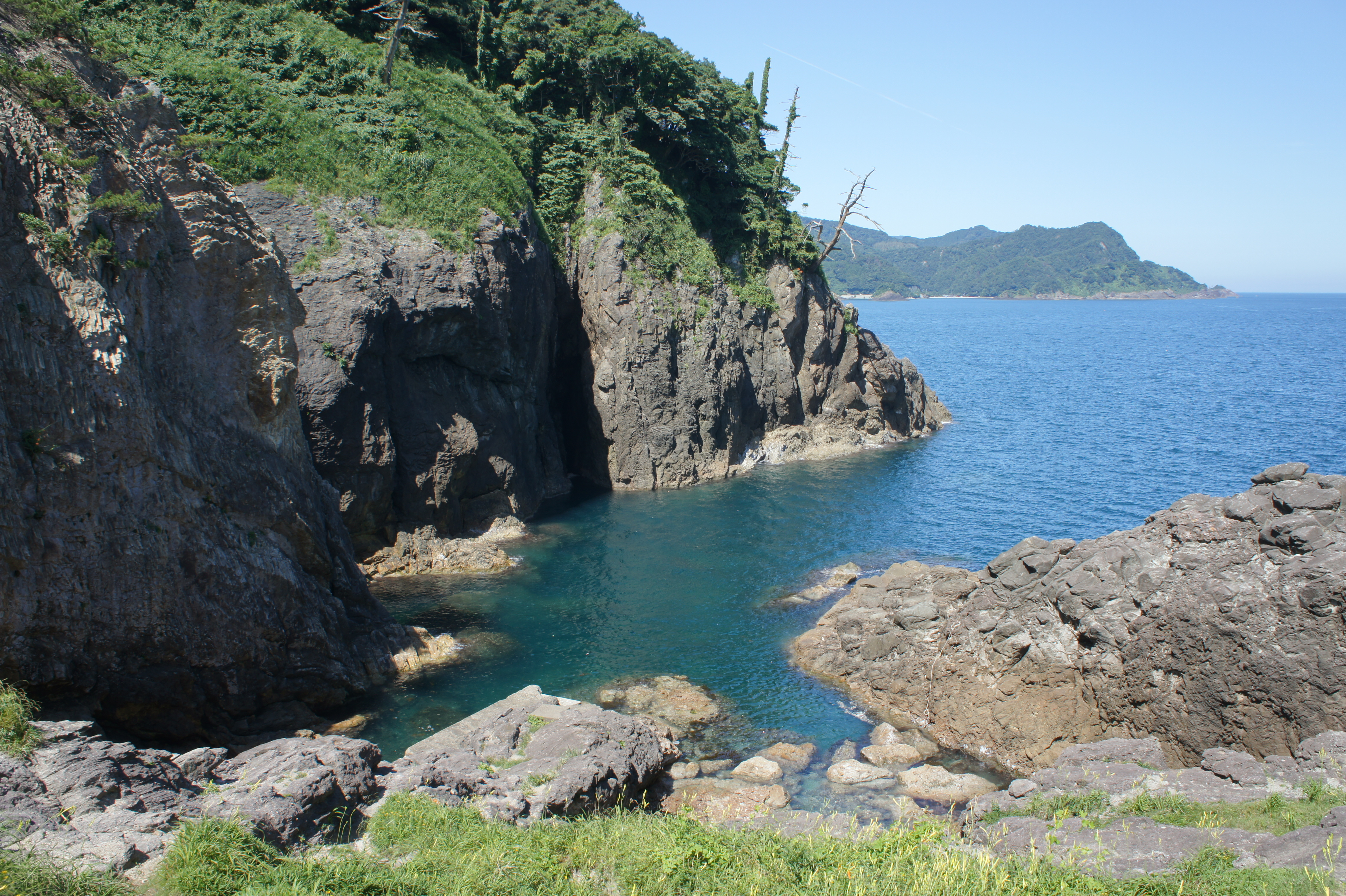 Kasumi Coast view from Okami park in Kami, Hyogo prefecture, Japan It belongs to a Sanin Kaigan National Park.